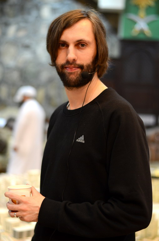 صورة تم التقاطها للمخرج محمد بايزيد في مكة المكرمة، حيث كان يعطي دورة خاصة في الإخراج السينمائي